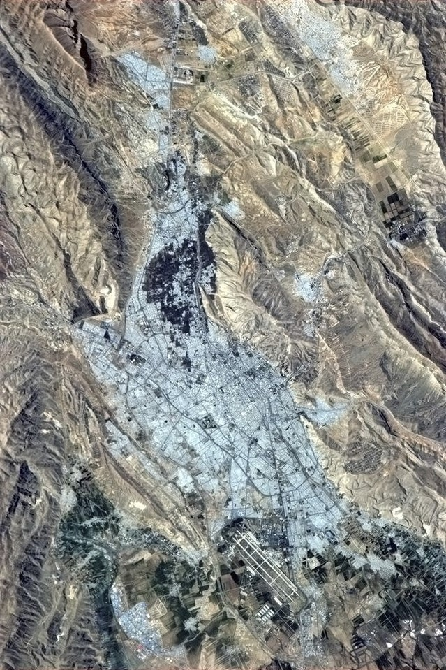 Shiraz, Iran is pictured in this handout photo courtesy of Col. Chris Hadfield of the Canadian Space Agency, who at the time was photographing Earth from the International Space Station, taken on March 20, 2013 (Persian New Year's day).